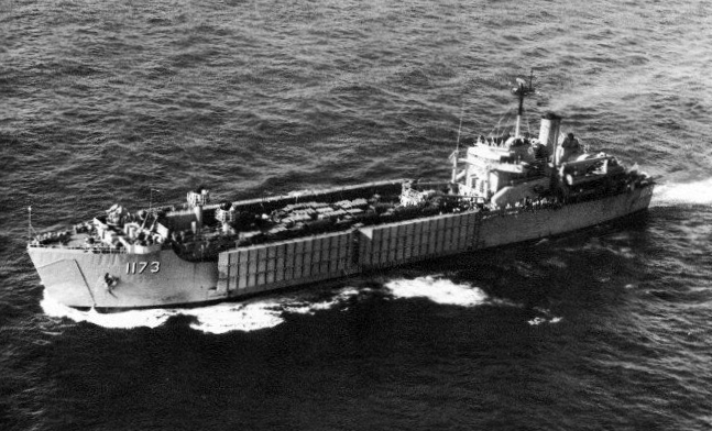 The U.S. Navy De Soto County-class tank landing ship USS Suffolk County (LST-1173) underway in the Caribbean, in 1965.